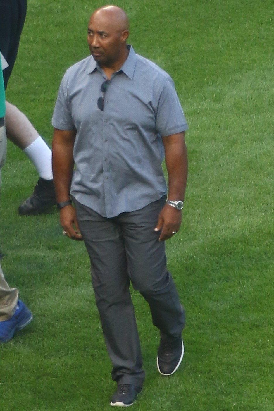 Harold Baines during a 2017 ceremony at Guaranteed Rate Field